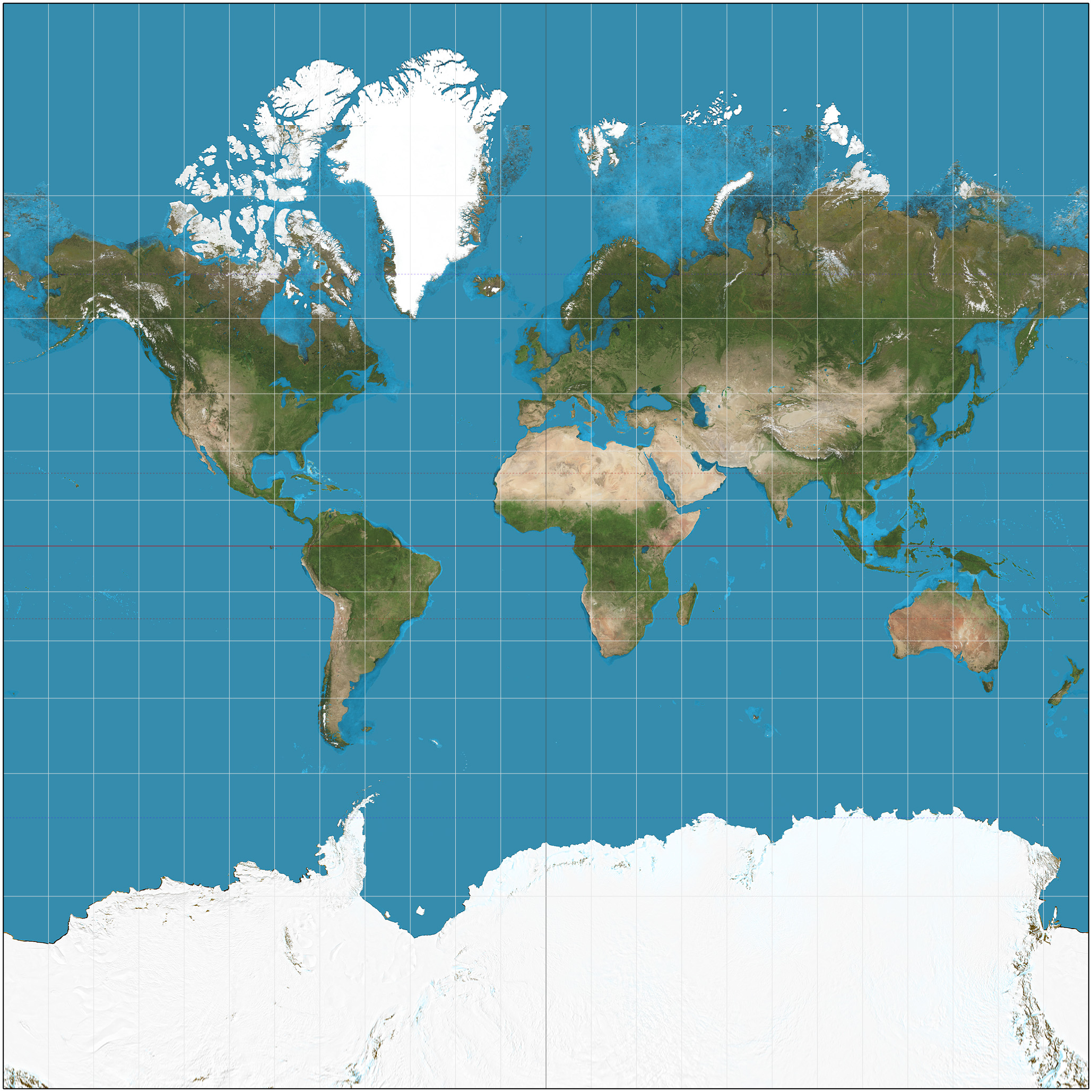 The world on Mercator projection between 85°3'4"S and 85°3'4"N, such that image is square. 15° graticule. Imagery is a derivative of NASA’s Blue Marble summer month composite with oceans lightened to enhance legibility and contrast. Image created with the Geocart map projection software.